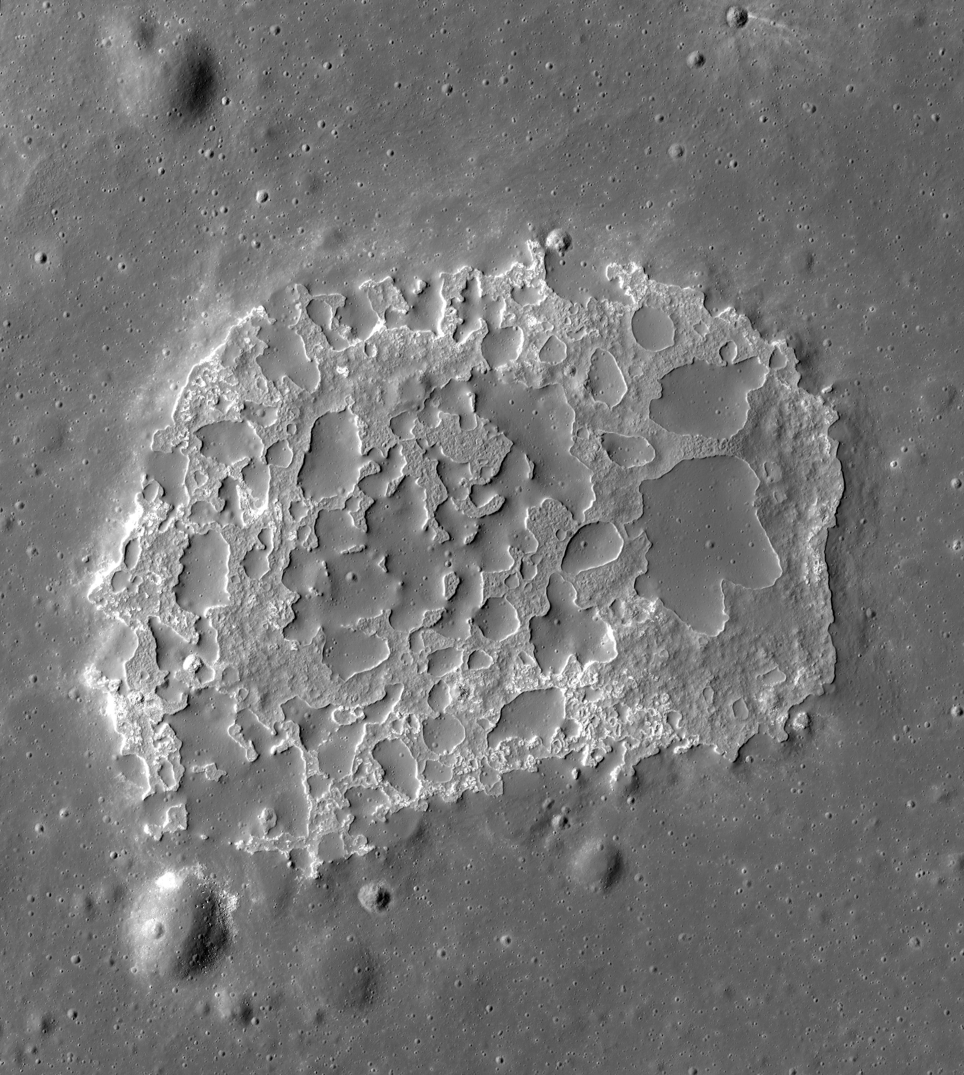 Mysterious crater Ina on the Moon, in Lacus Felicitatis (a map). Centered at 18.65°N, 5.29°E. Photo by Lunar Reconnaissance Orbiter, made with Narrow Angle Camera 27 November 2009 from altitude 45 km. Sun elevation is 32.3°.Resolution is 1.1 m/pixel, width of the photo is 3.5 km, north is up.